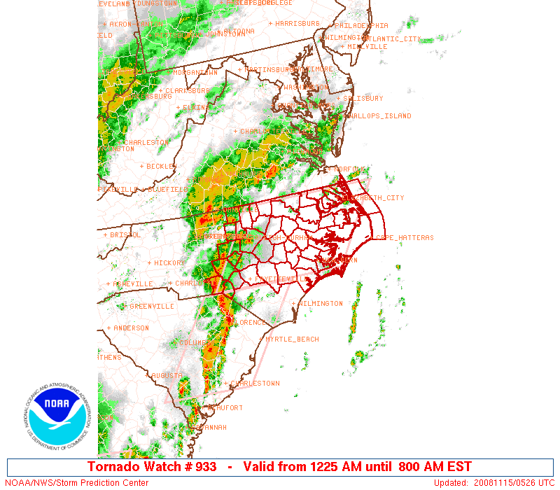 Initial Radar for Tornado watch 933